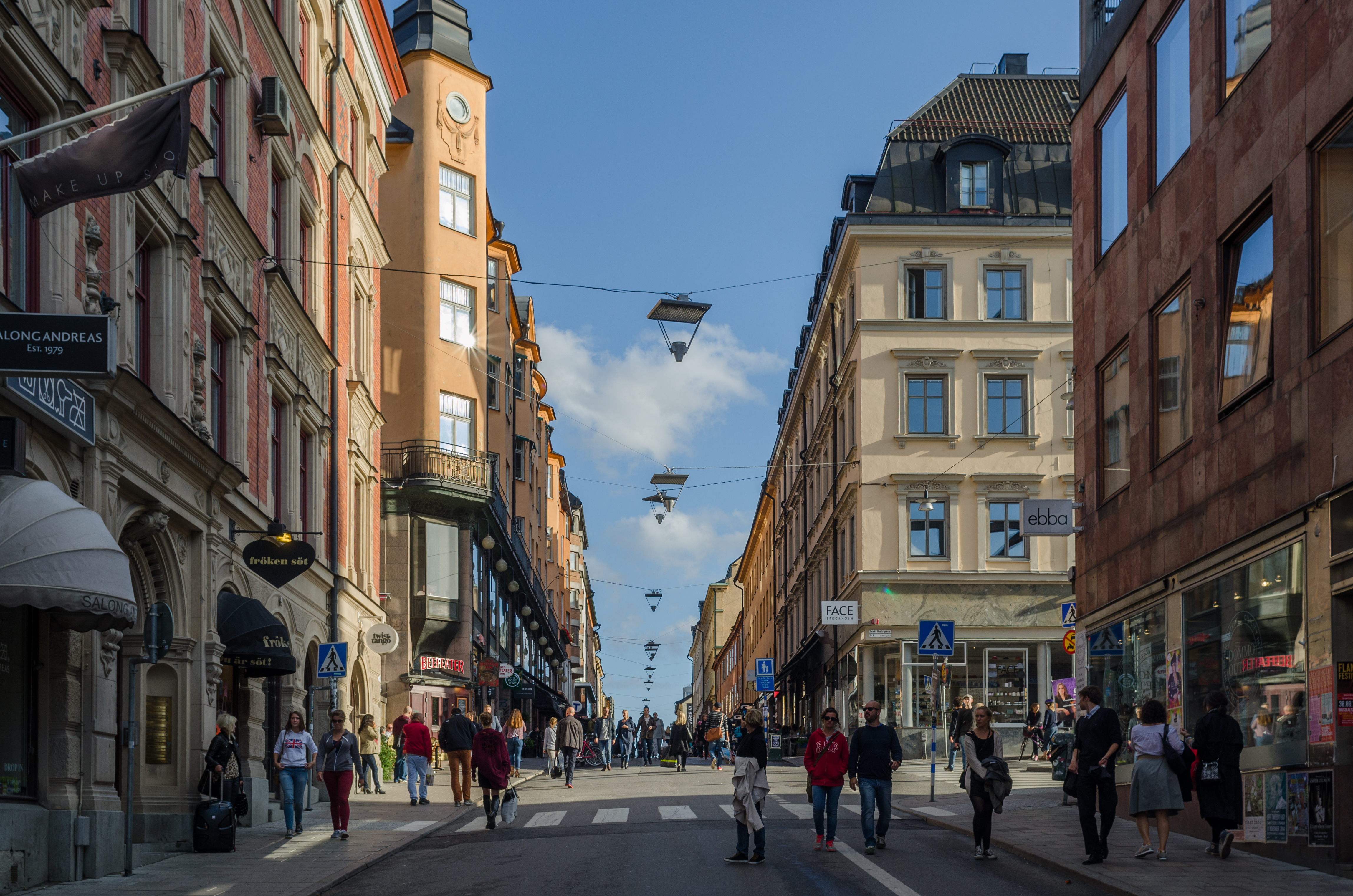 The street Götgatan in Söderman, Stockholm.